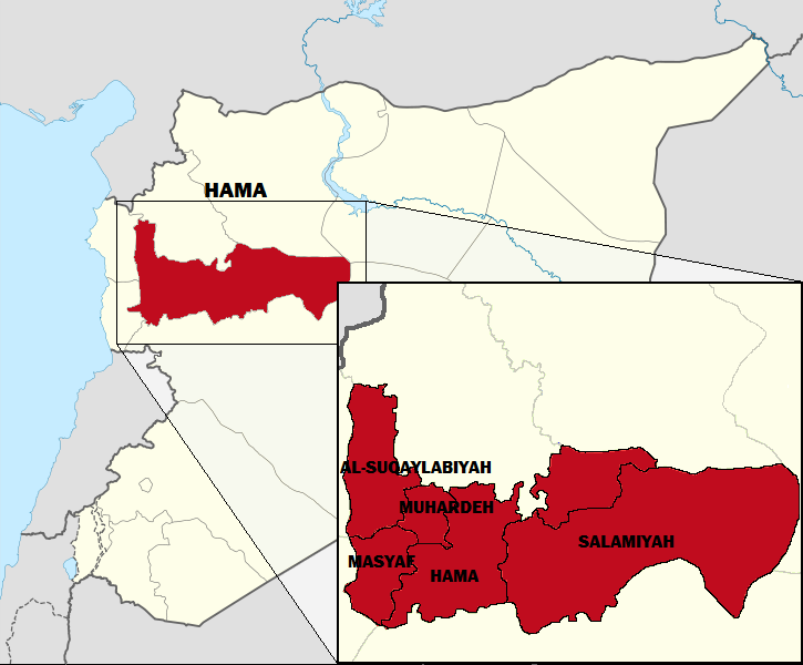 Hama Governorate, Syria, with Its Districts.